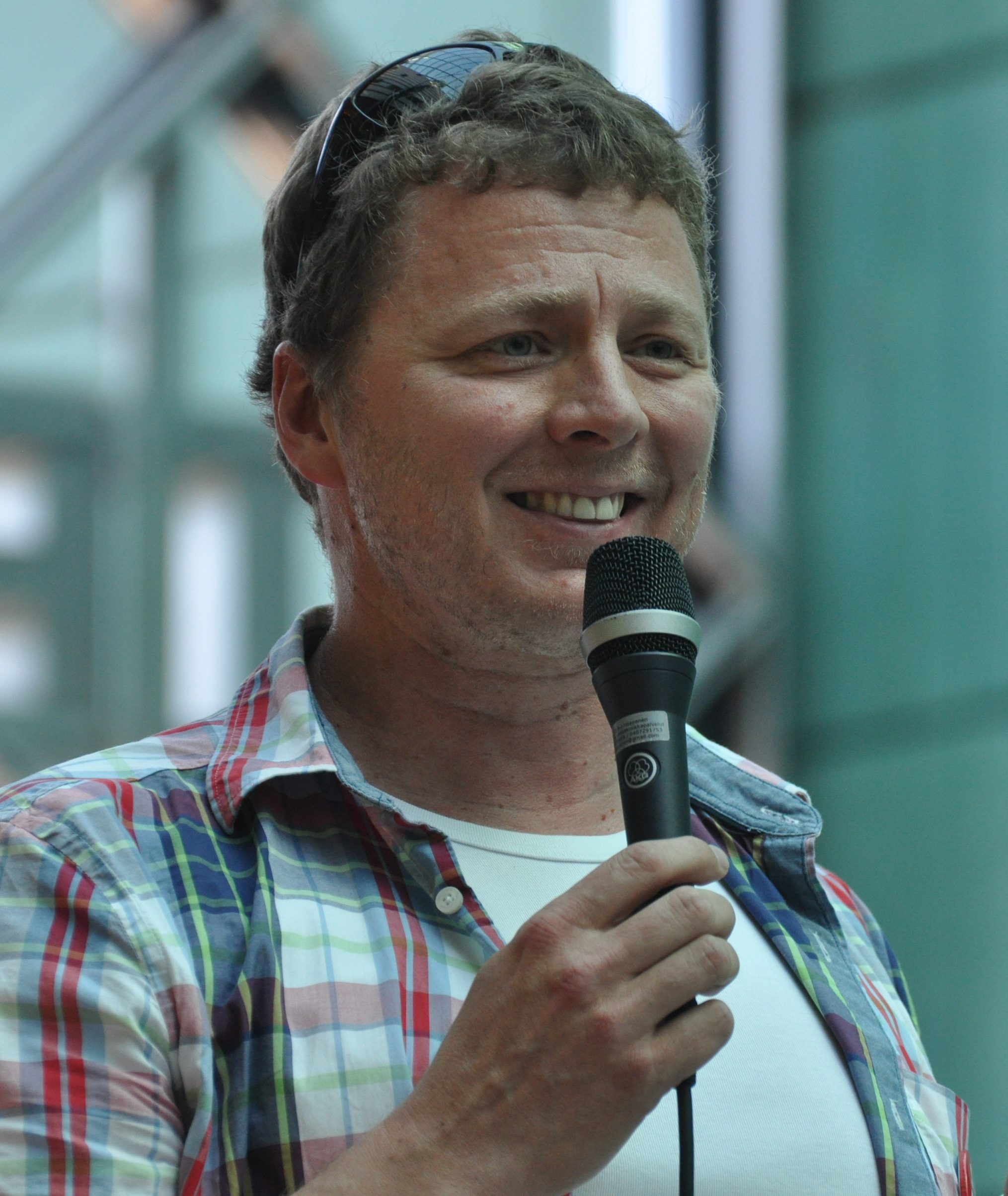 Finnish comedian Jaakko Saariluoma at SuomiAreena in Pori, 2014.